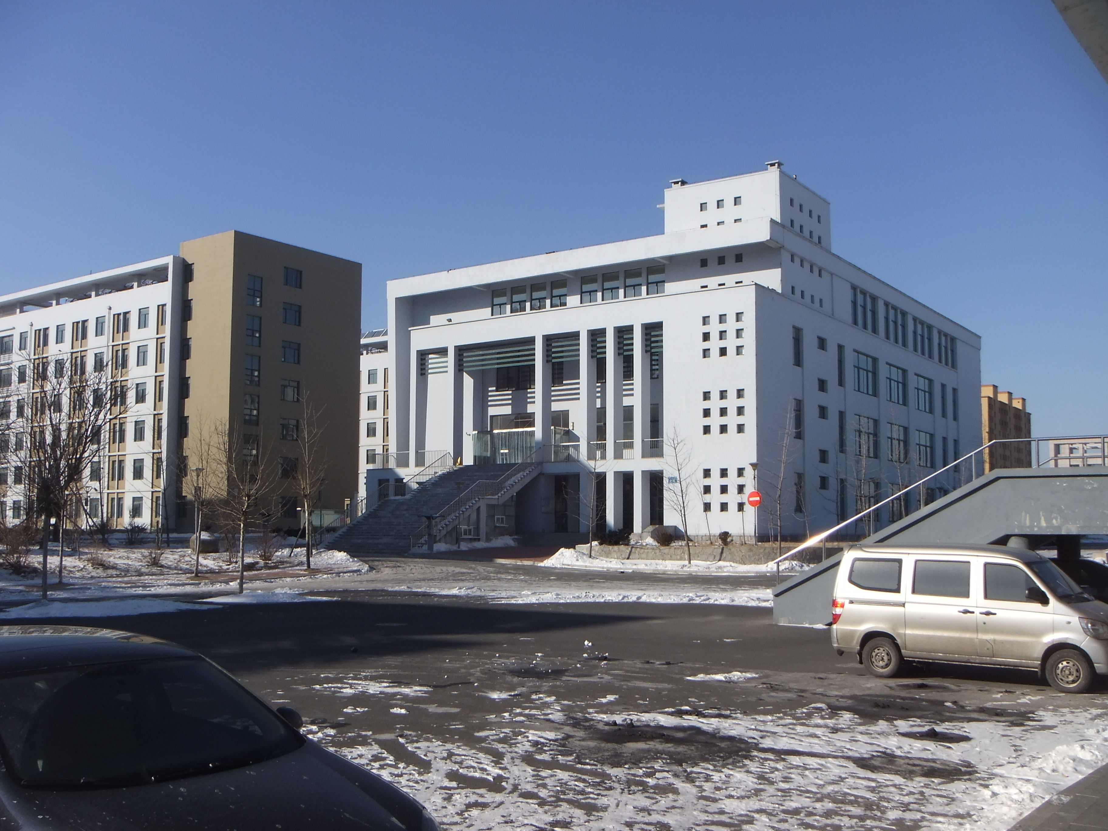 Students' Cafeteria of Dandong No.2 High School.